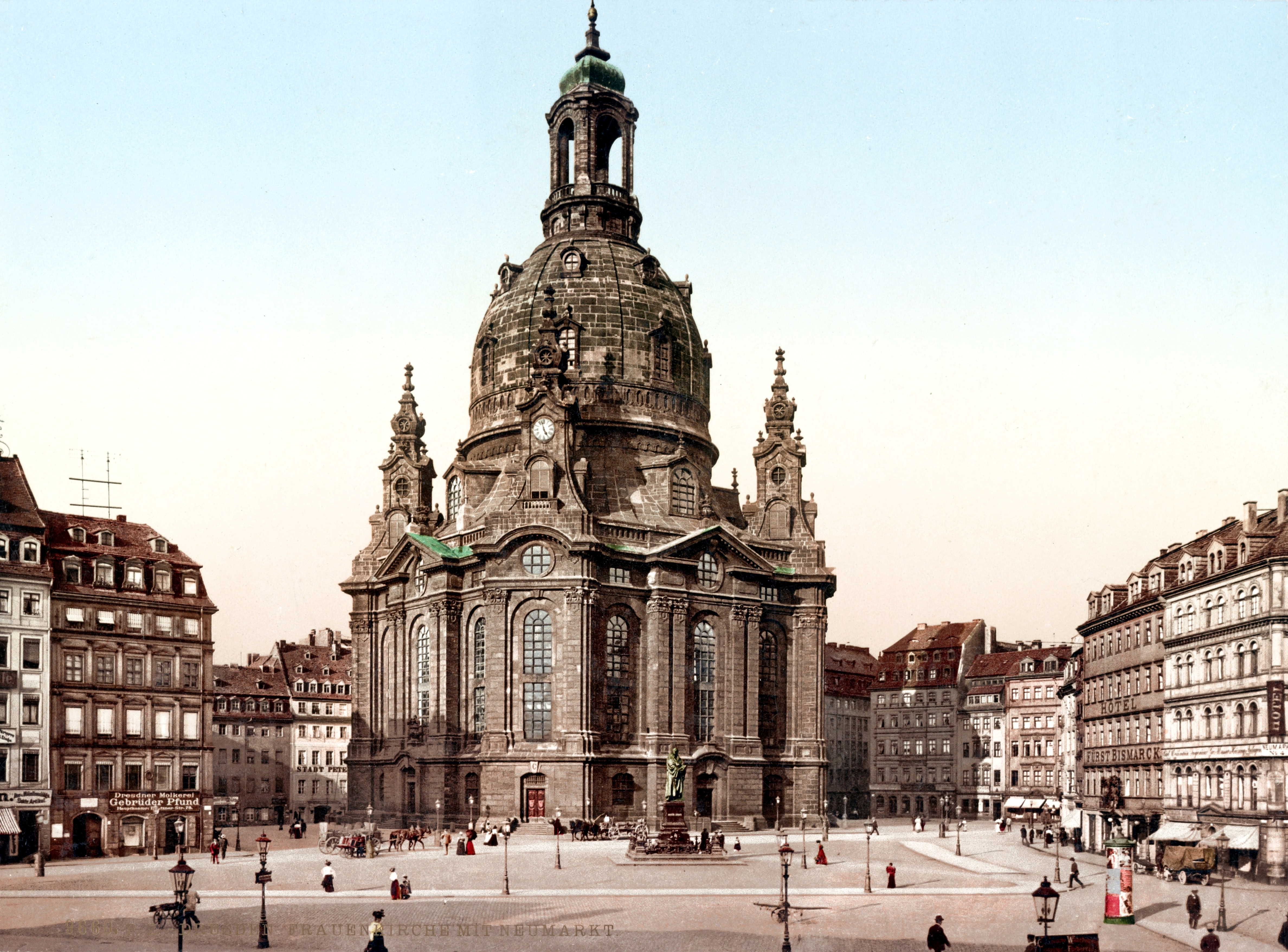 Title: Dresden. Frauenkirche mit Neumarkt Physical description: 1 print